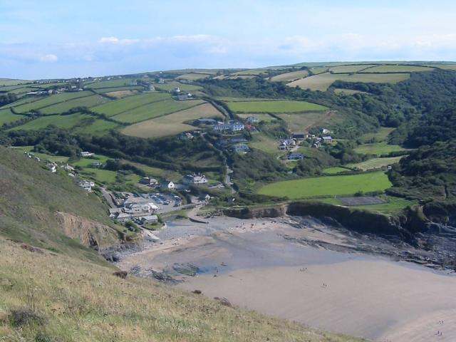 Crackington Haven, Cornwall. Taken from the cliff around SX140972, but covering a good proportion of the SX1496 grid square with Crackington Haven nestling at the bottom of the valley. This was taken in 2003, before the 2004 floods which washed away the car park and footbridge.